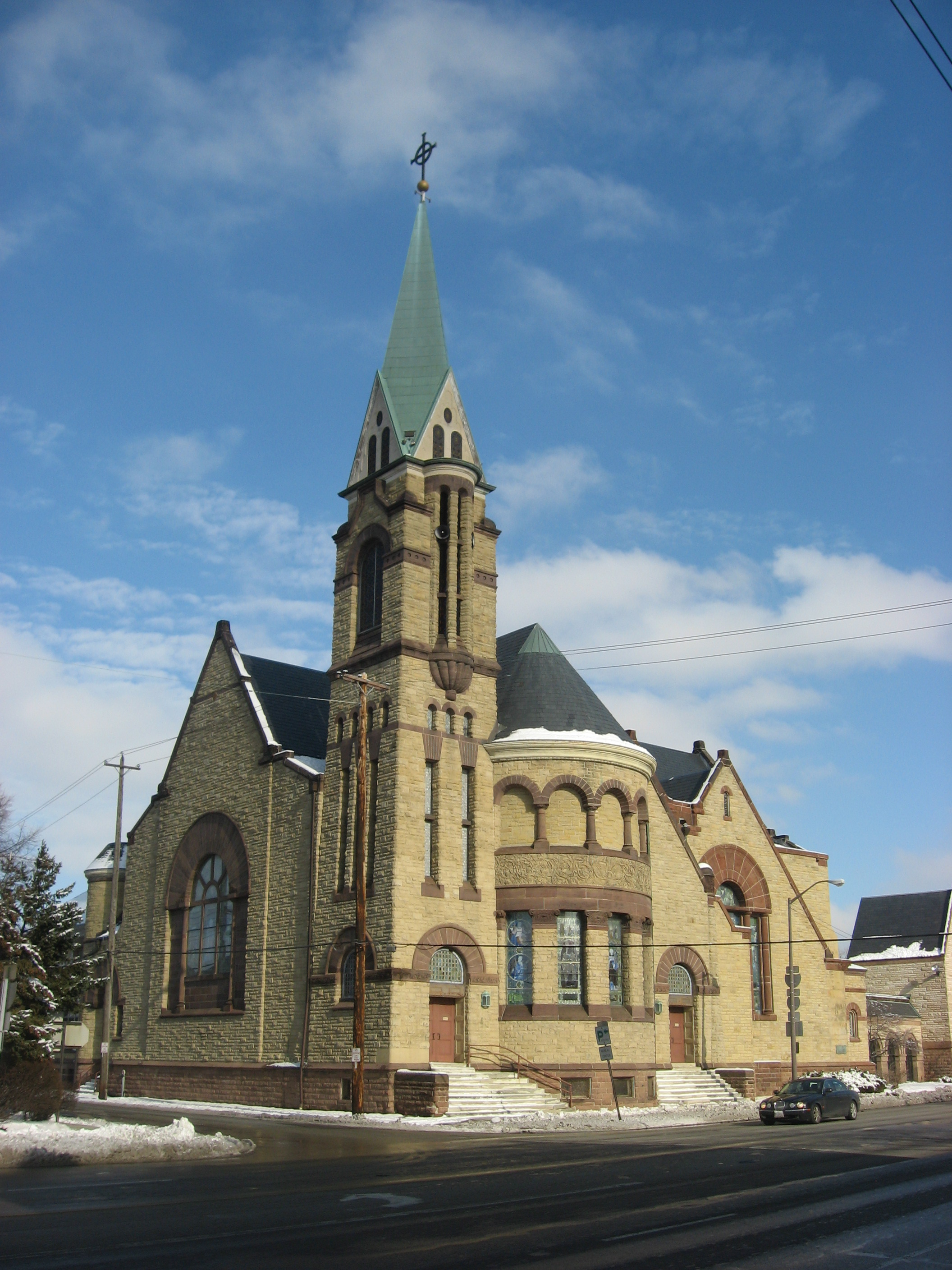 Front of the East Broad Street Presbyterian Church, located at 760 E. Broad Street (U.S. Route 40) in Columbus, Ohio, United States. Built in 1887 according to a design by Frank Packard, it is listed on the National Register of Historic Places.